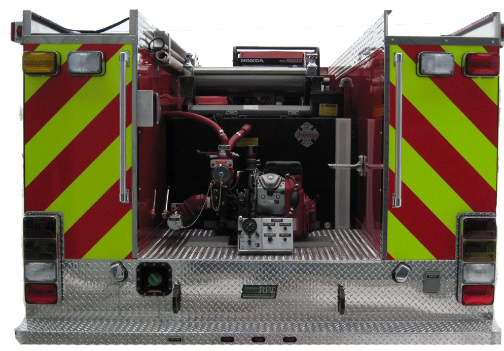 NFPA 1901 approved chevron markings on rear of Indian Creek Vol. Fire Department Rescue/Mini-Pumper.